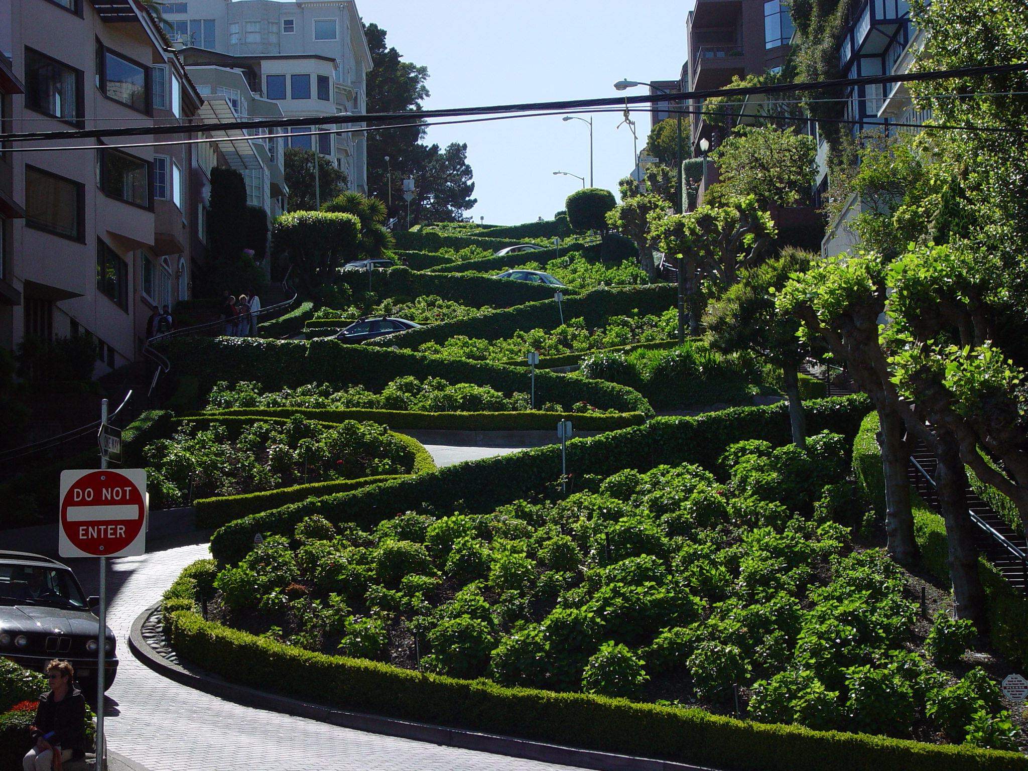 Lombard Street, San Francisco, as seen from the bottom.Lombard Street